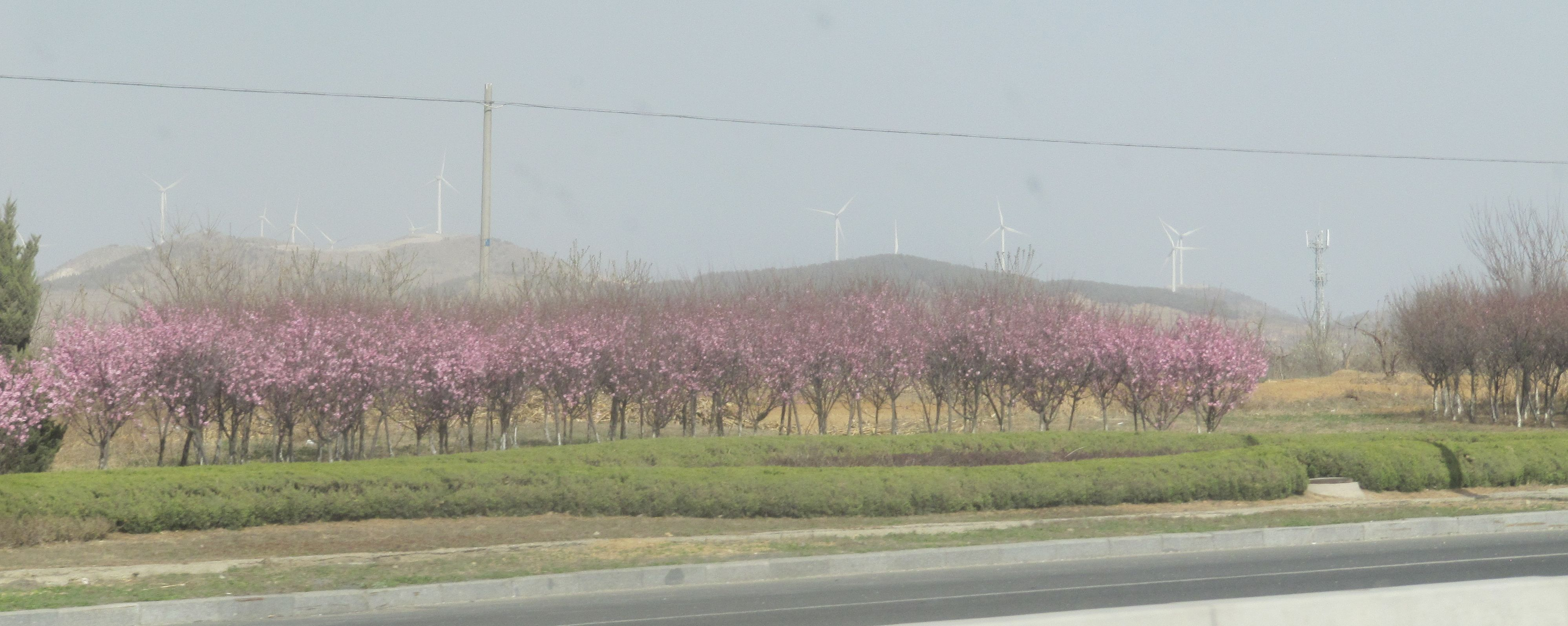 Wind turbines field at Yantai (烟台市) on Chang Island, Shandong province, China